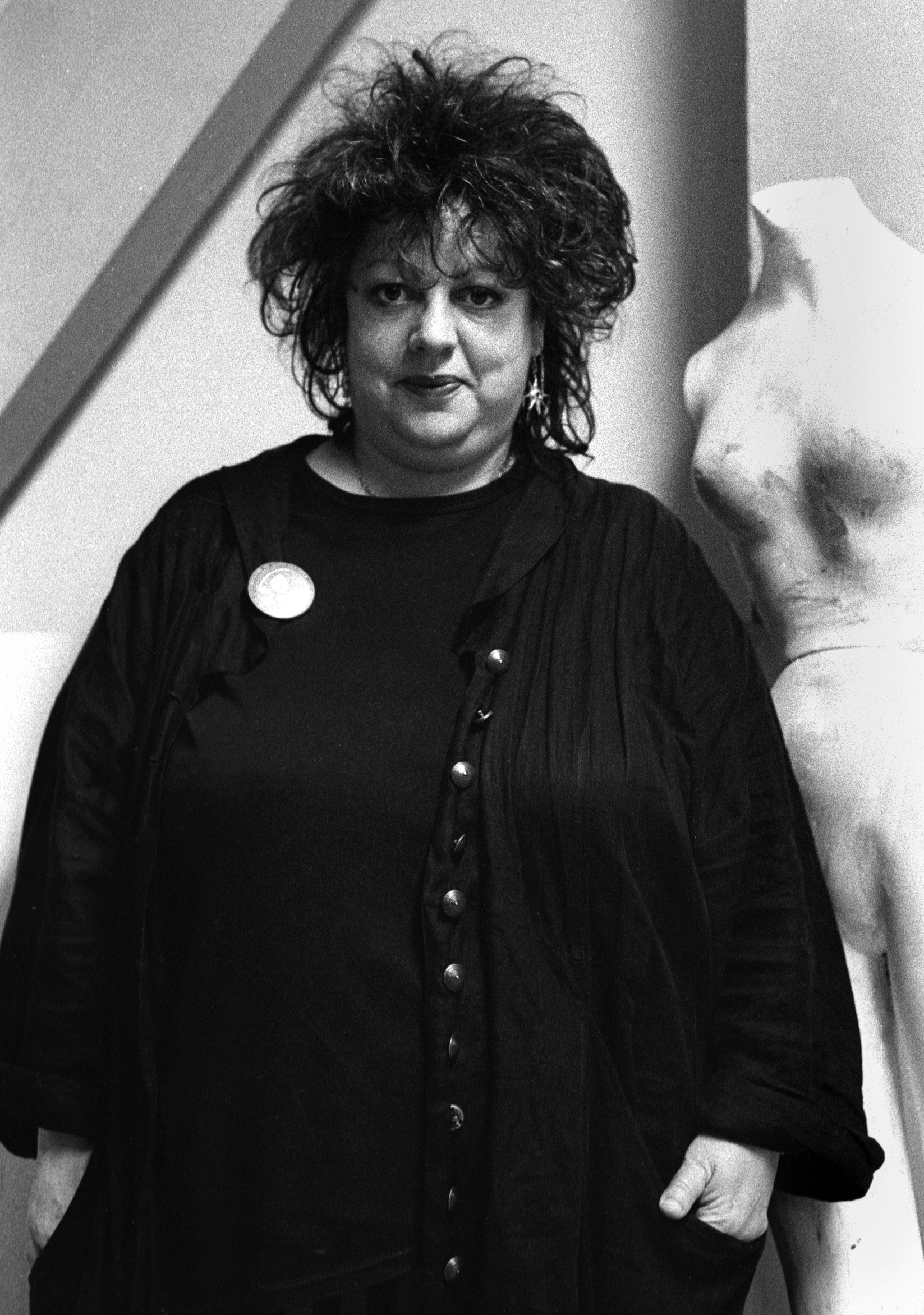 English comedienne Jo Brand, 1994.